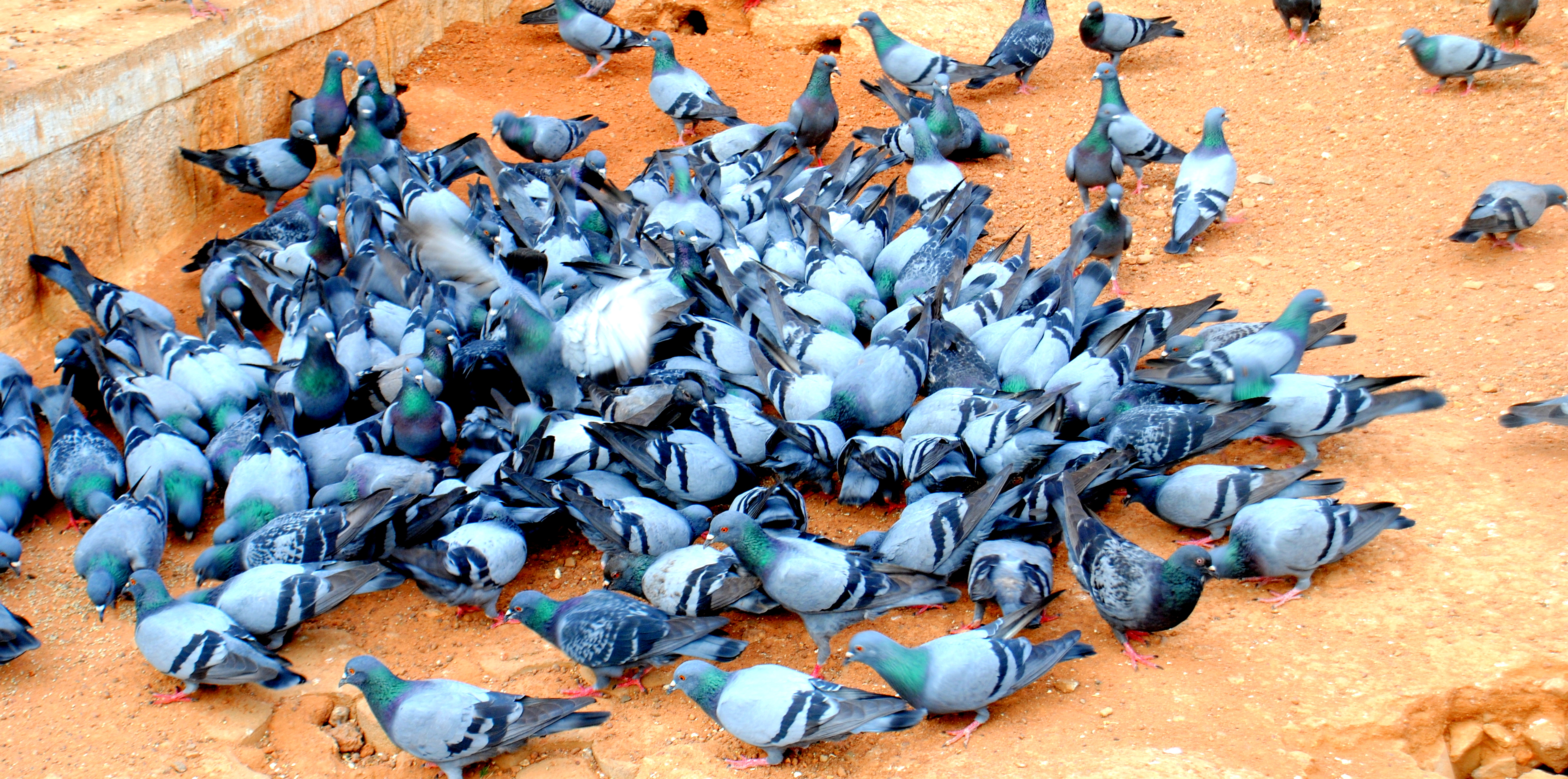 100 Pigeons